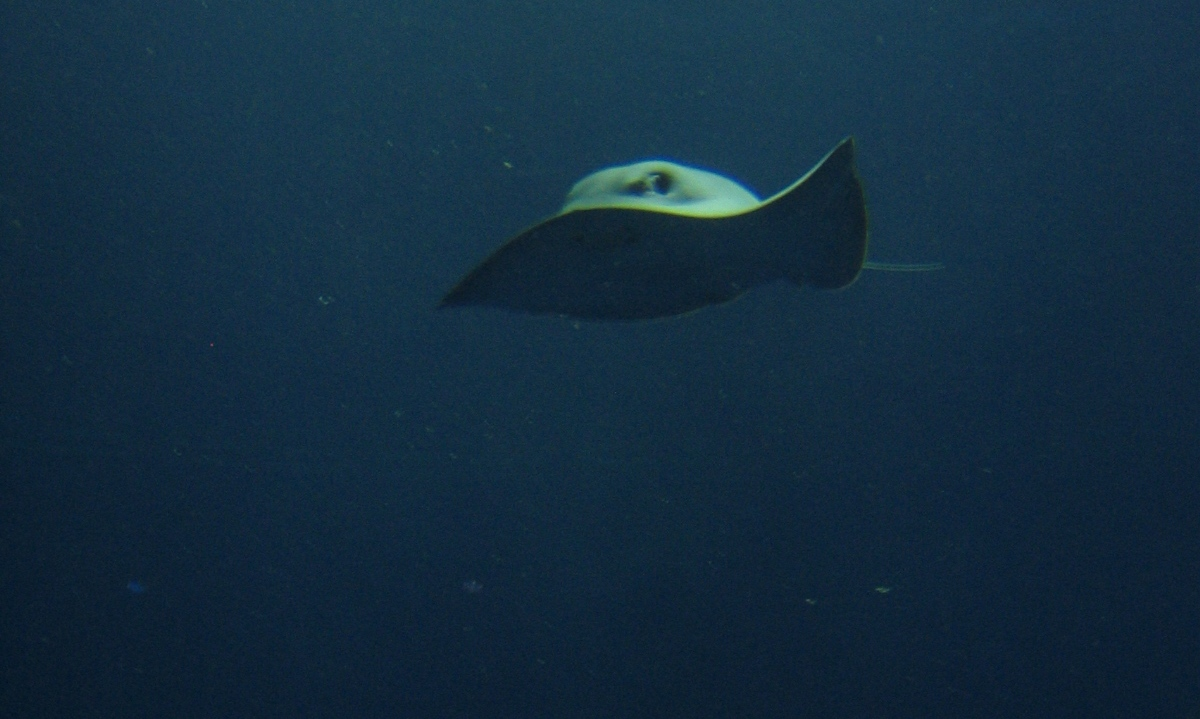 Pelagic stingray (Pteroplatytrygon violacea) at the Monterey Bay Aquarium